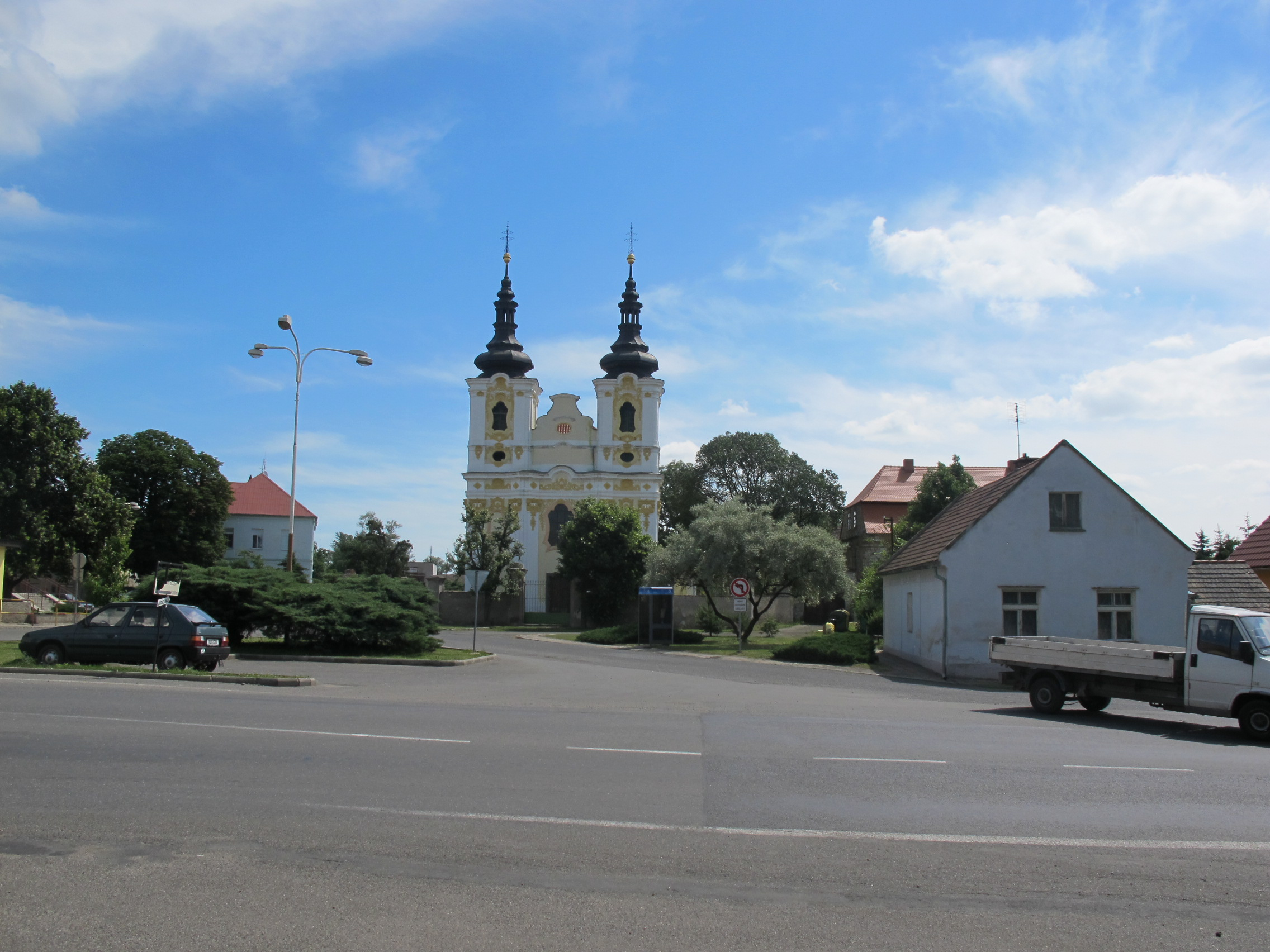 Village square in Libočany